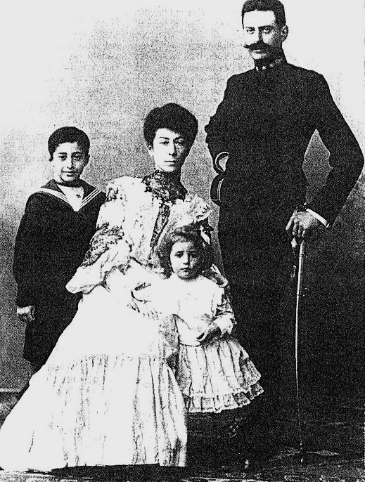 greek revolutionary